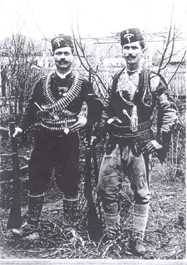 Photo of Ivan Karasuliiski and Apostol Petkov taken around 1895